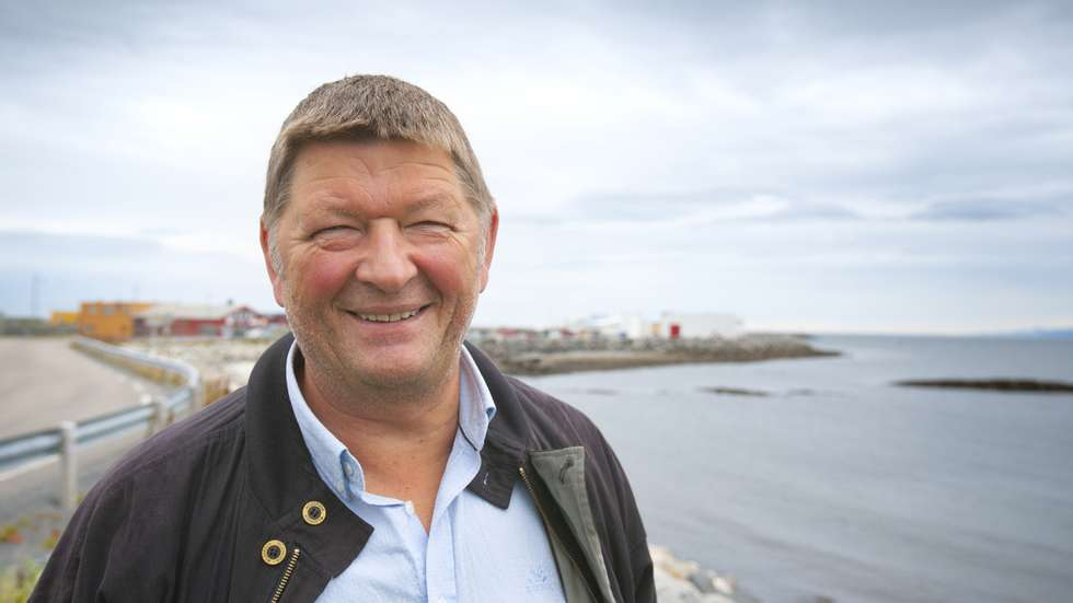 Knut Nordmo